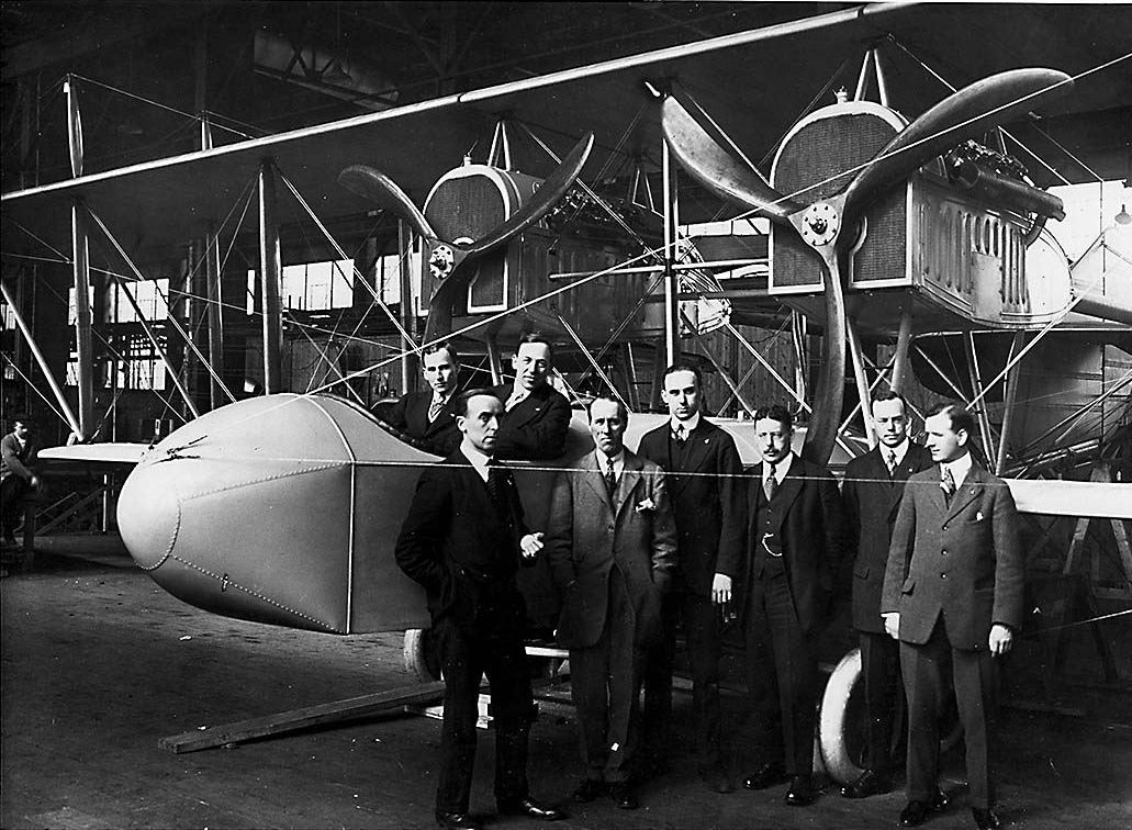 Curtiss Canada bomber, Toronto, Canada. In the cockpit are F.G. Erickson (right) and J.A.D. McCurdy.